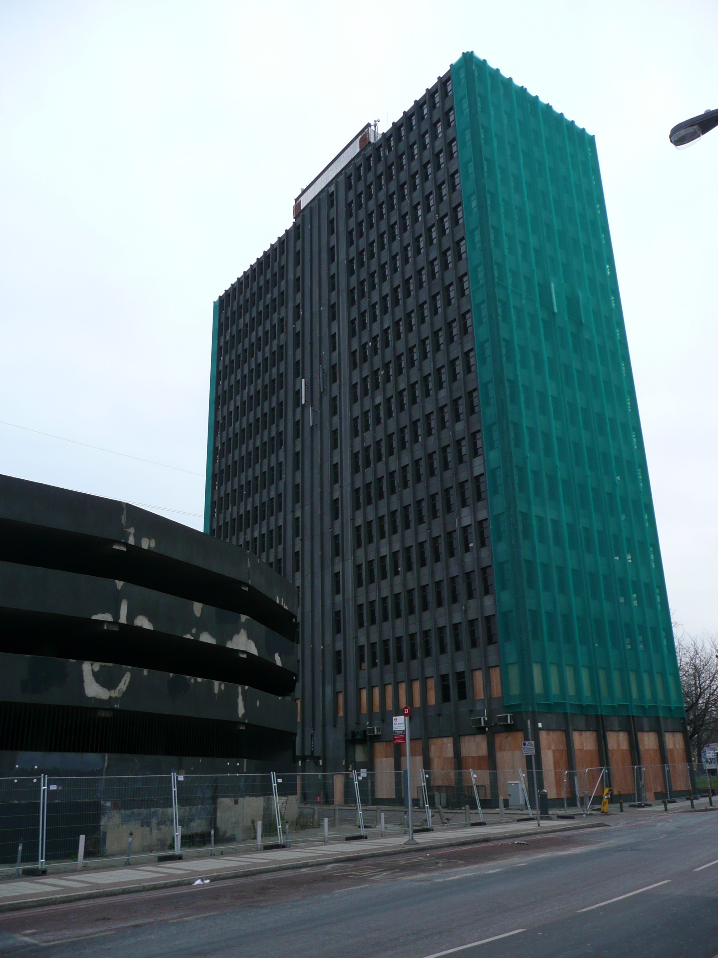 Brown and Root Tower, Colliers Wood, London SW19, UK, showing boarding-up and protective netting of December 2008